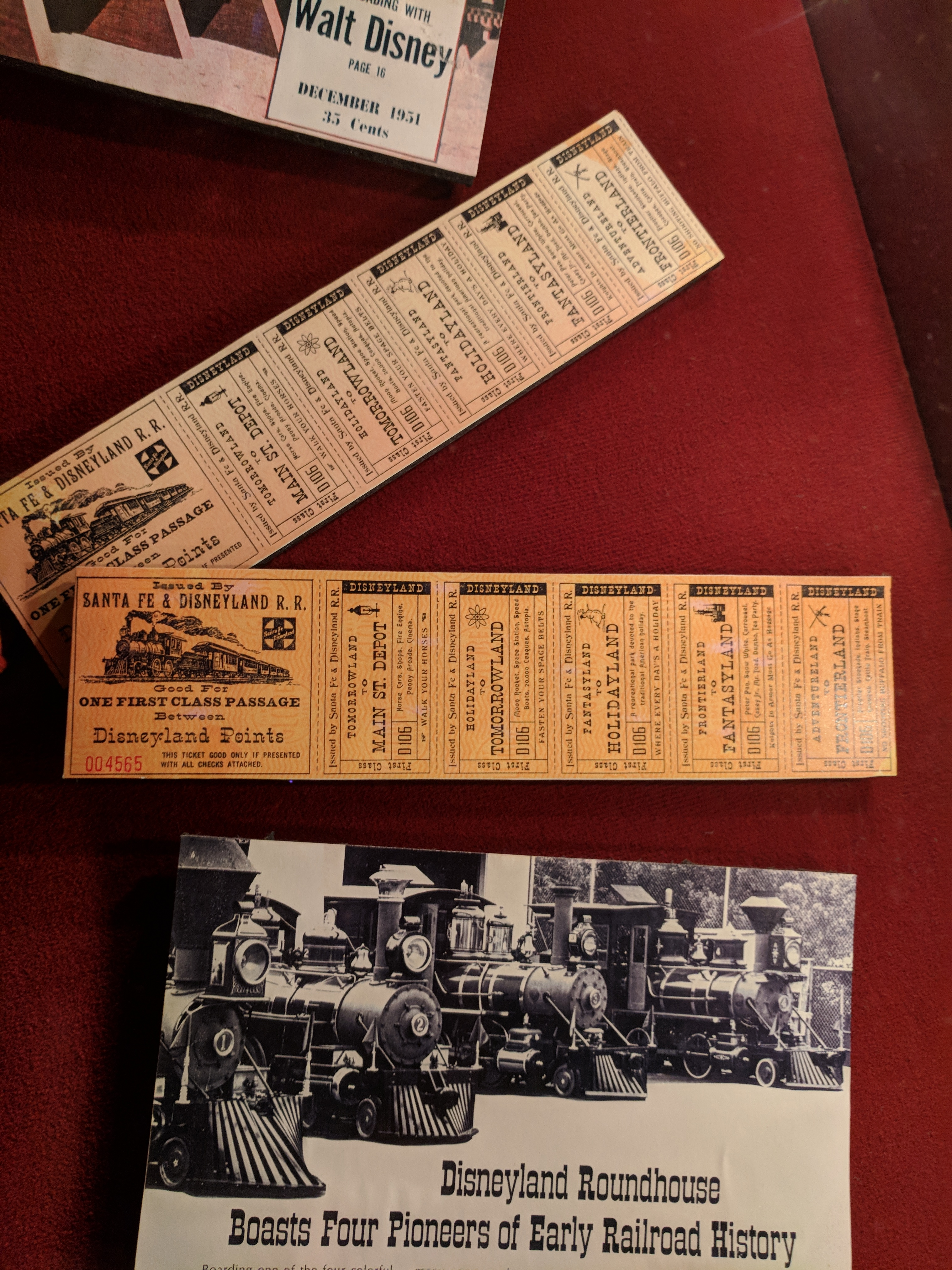 Tickets used to promote the Disneyland Railroad before the opening of Disneyland in 1955. Found in Disneyland's Main Street Station.